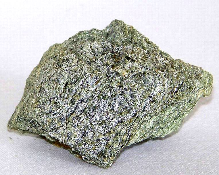 Tremolite schist from Austra